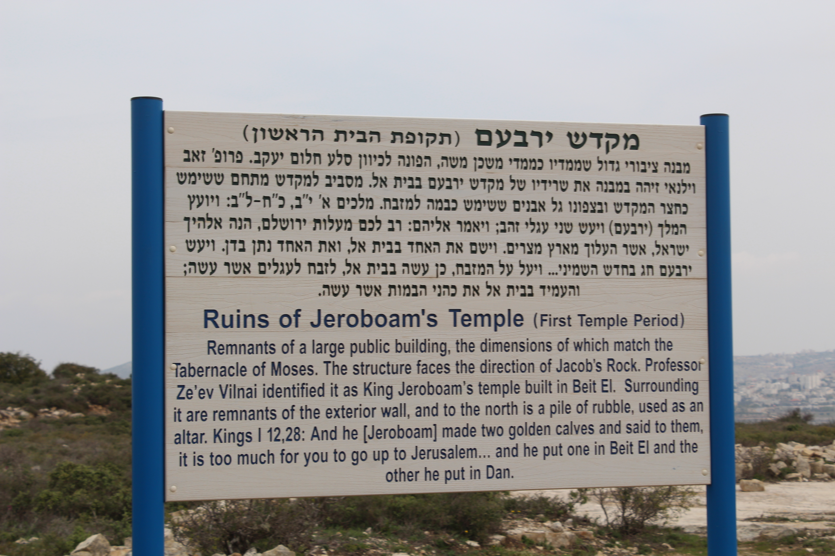 Ruins of Jeroboam's Temple in Bet El, Beit El, occupied Palestine. This image was taken as part of the Elef Millim project trip to "Jacob's dream", in Bethel which was held on Friday, 17th March 2017. To view all images uploaded as part of the Elef Millim Project